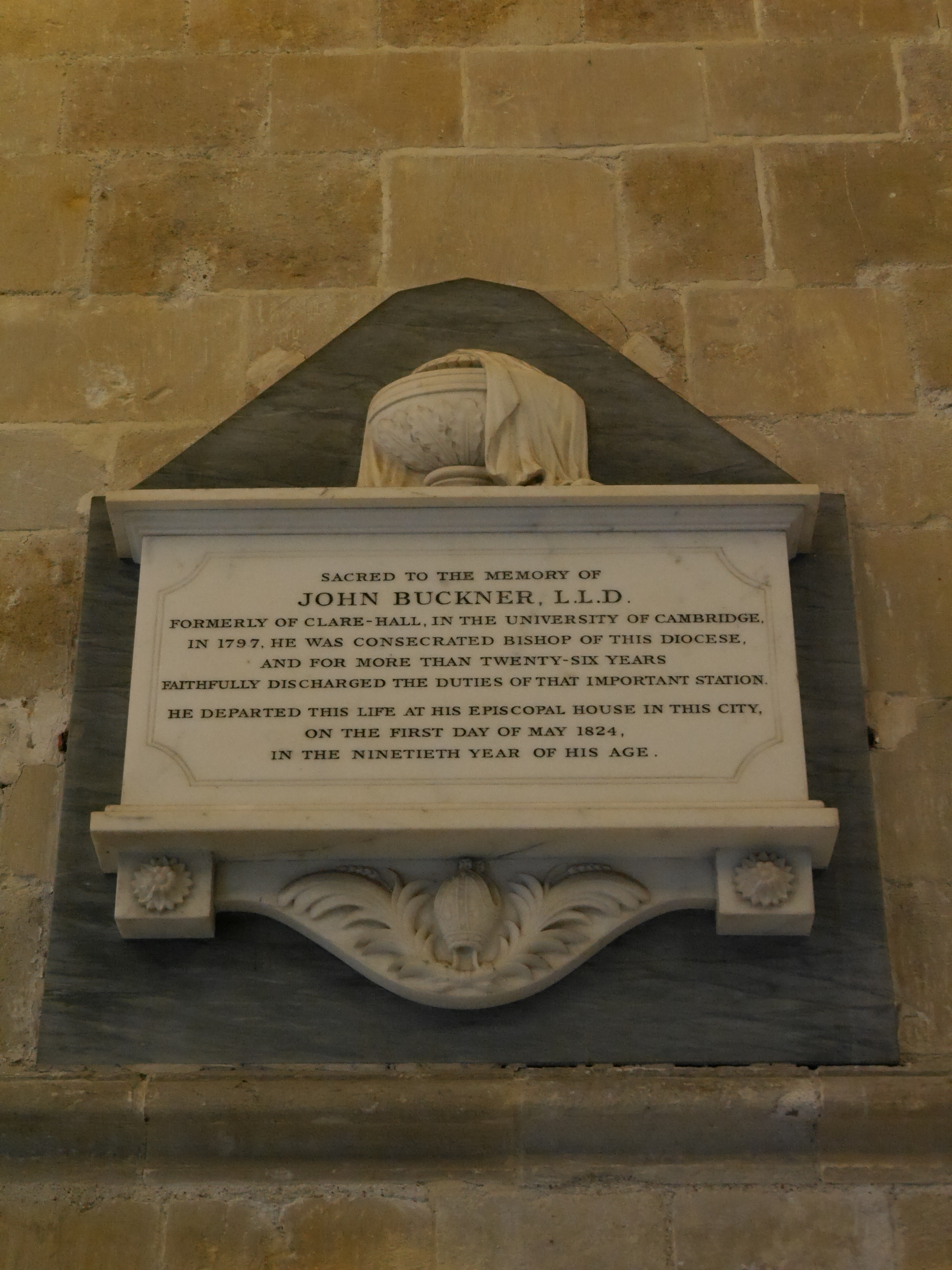 Chichester Cathedral, July 2015